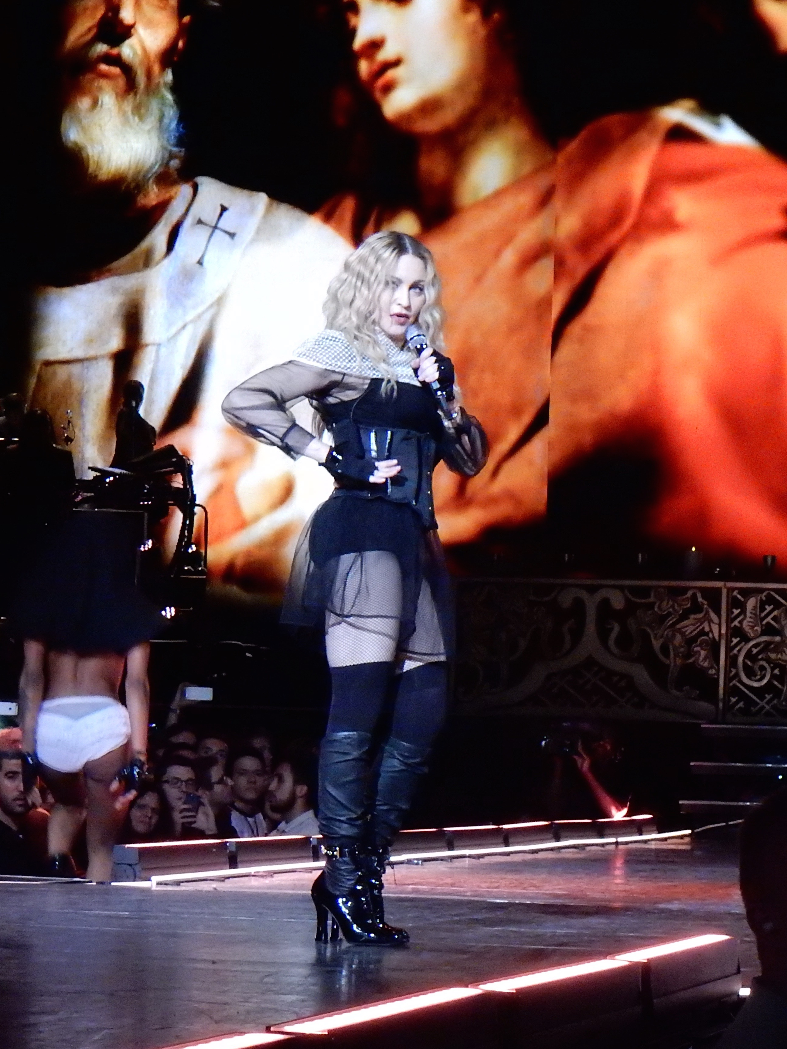 Madonna - Rebel Heart Tour Cologne 2